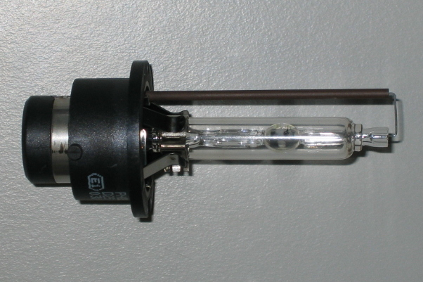 Defective Xenonbulb, Type D2S